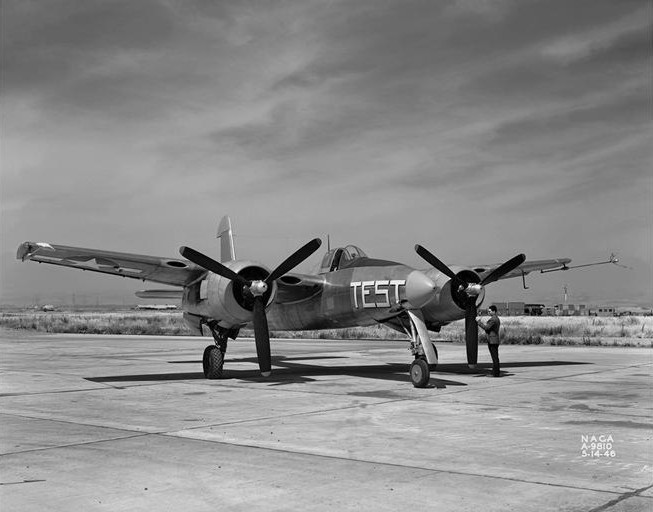 The second U.S. Navy Grumman XF7F-1 Tigercat fighter (BuNo 03550) used by the Ames Aeronautical Laboratory of the National Advisory Committee for Aeronautics (NACA), at Moffett Field, California (USA), for flying qualities, stability and control, and performance evaluations from 2 September 1944 to 19 June 1948. The photo was taken on 14 May 1946.